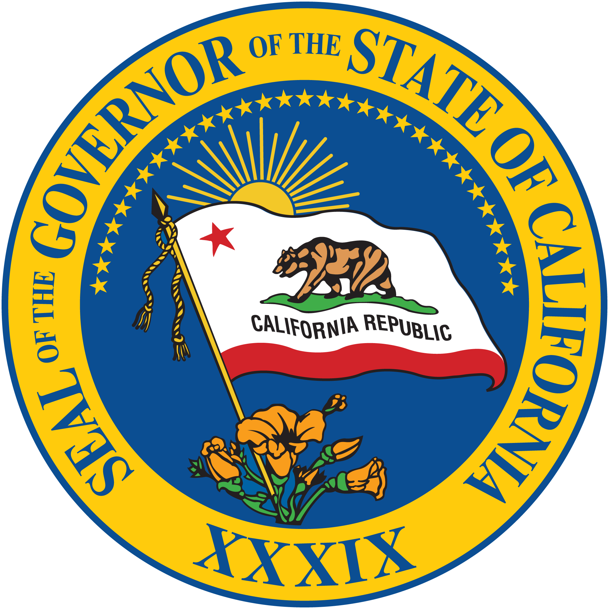 Seal of the 39th Governor of California, the honorable Jerry Brown.